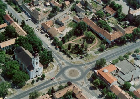 Kistelek, Hungary, aerialphotography